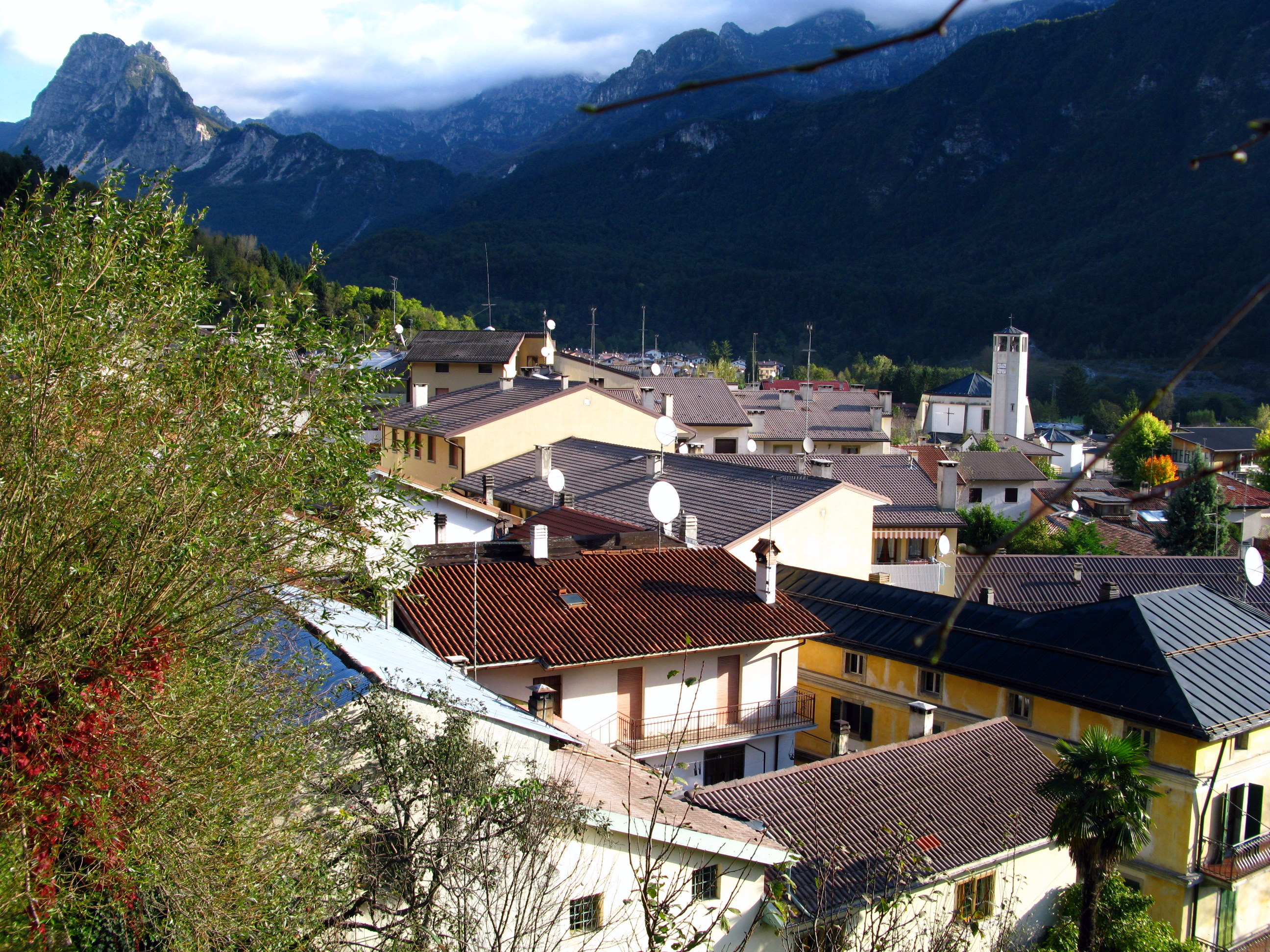 Moggio Basso in Moggio Udinese in Canal del Ferro / Friuli-Venezia Giulia / Italy / EU. Because of the earthquake of 1976 there no old buildings.